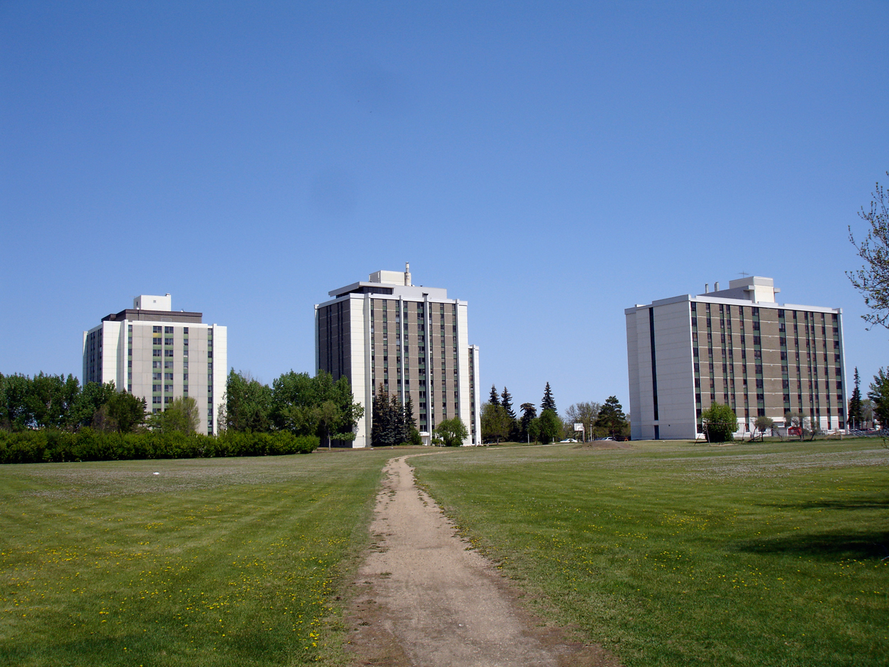 McEown Park residence hall buildings in the U of S Lands South Management Area, in Saskatoon, Saskatchewan, Canada.